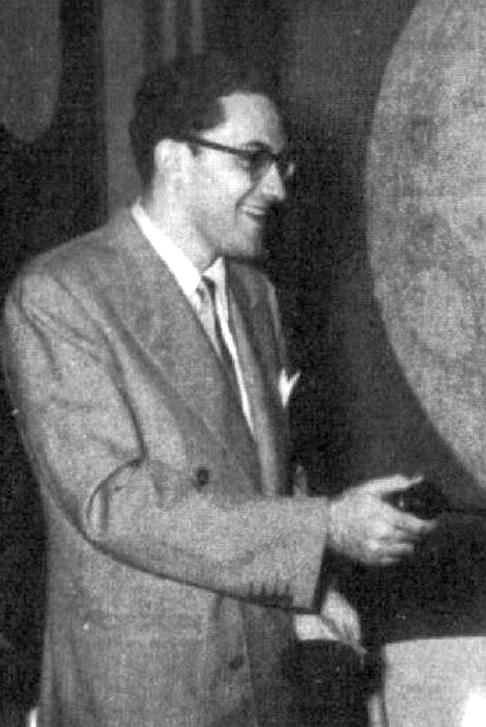 Melvin Korshak at the 1952 World Science Fiction Convention